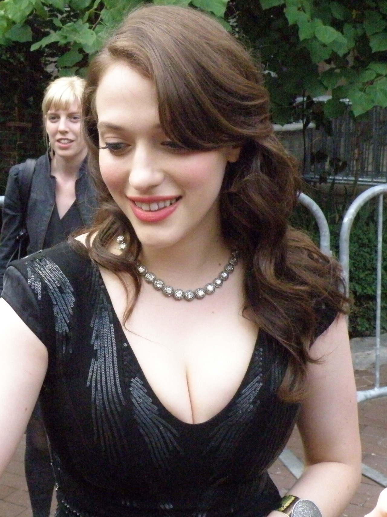 Kat Dennings arrives at the showing of her movie Daydream Nation at the Ryerson Theater.